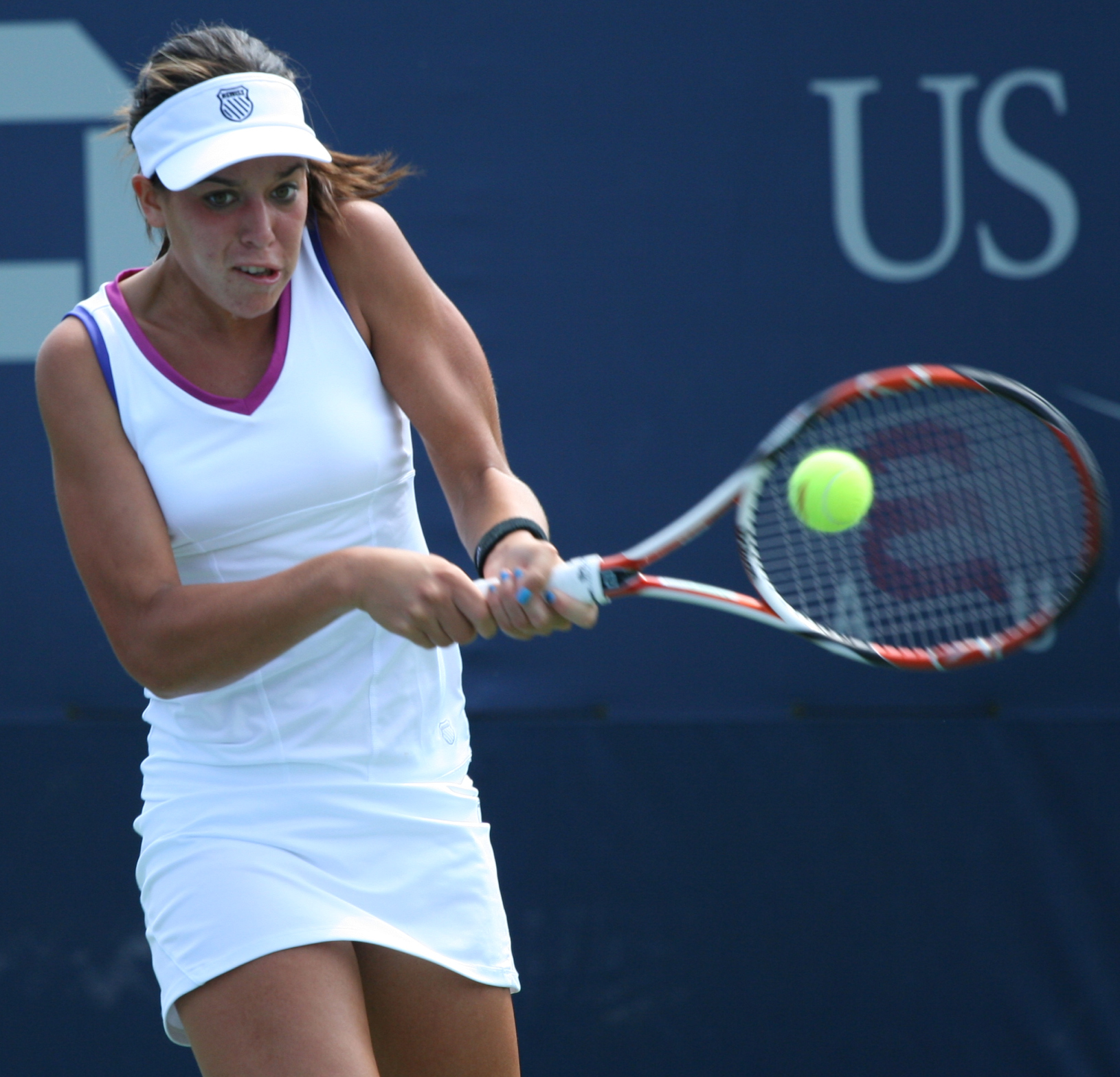 U.S. Open Juniors Monday, Sept. 7, 2009